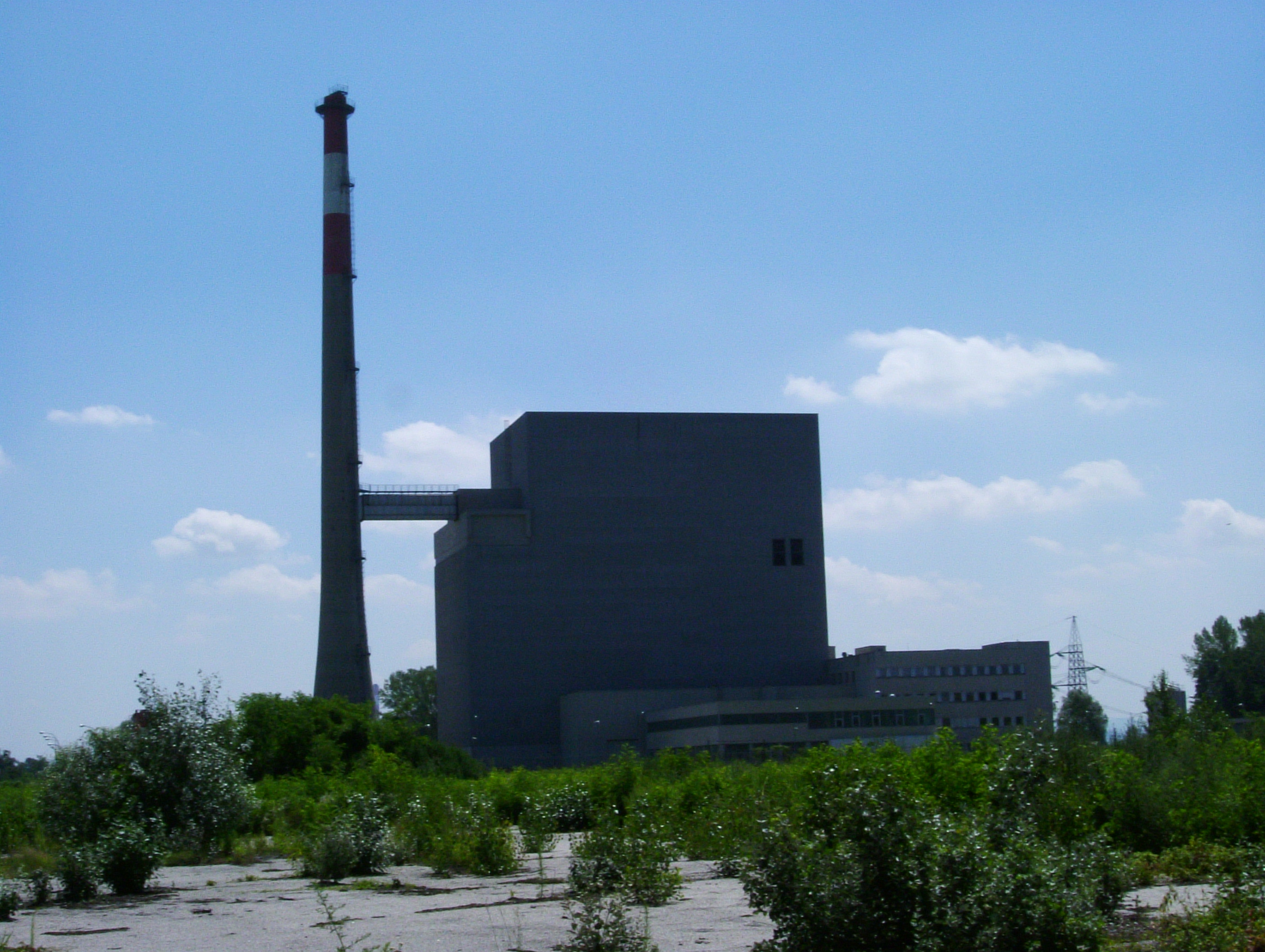 Reactor building od the Zwentendorf Nuclear Power Plant